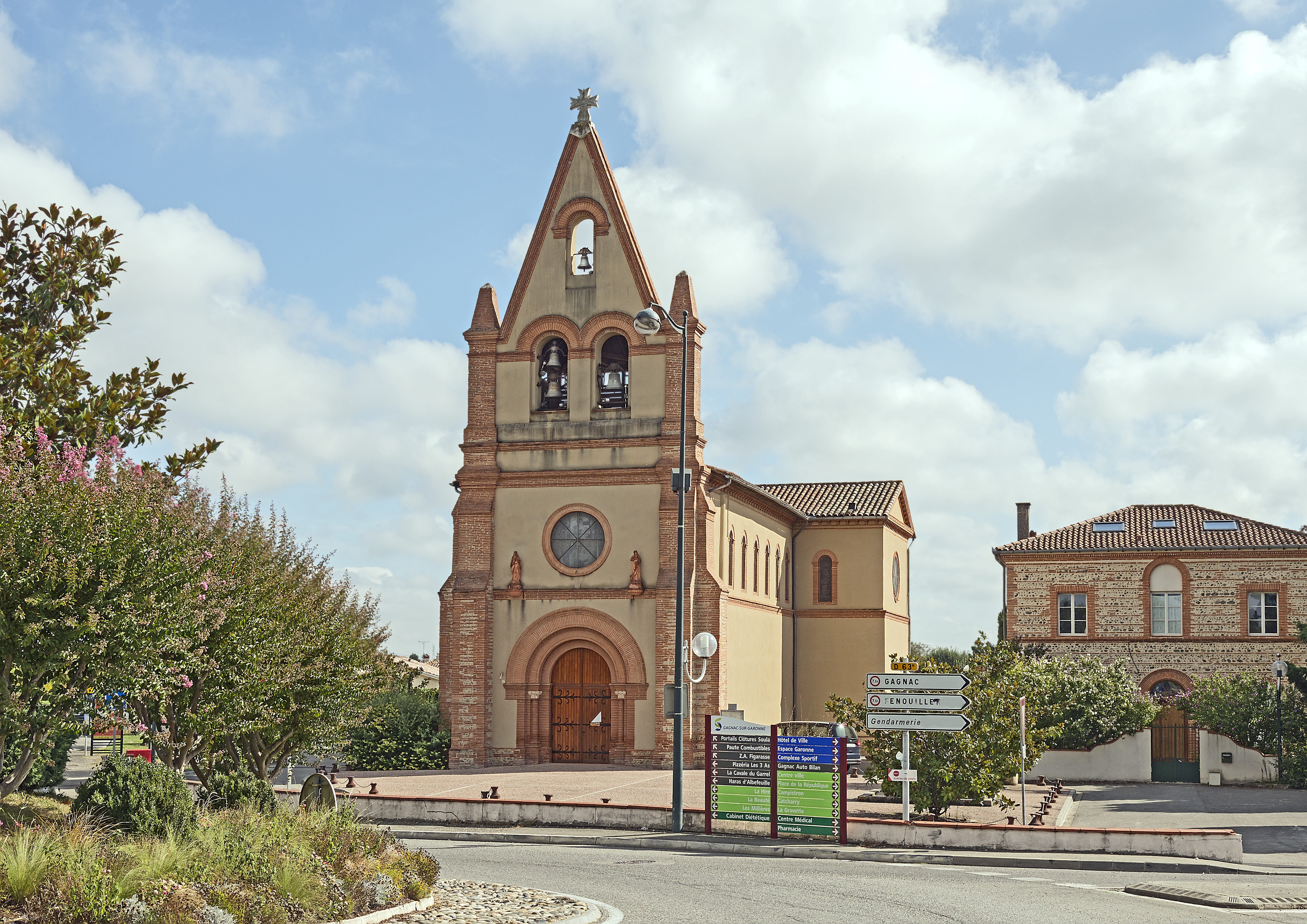 Gagnac-sur-Garonne. The church "Notre Dame"